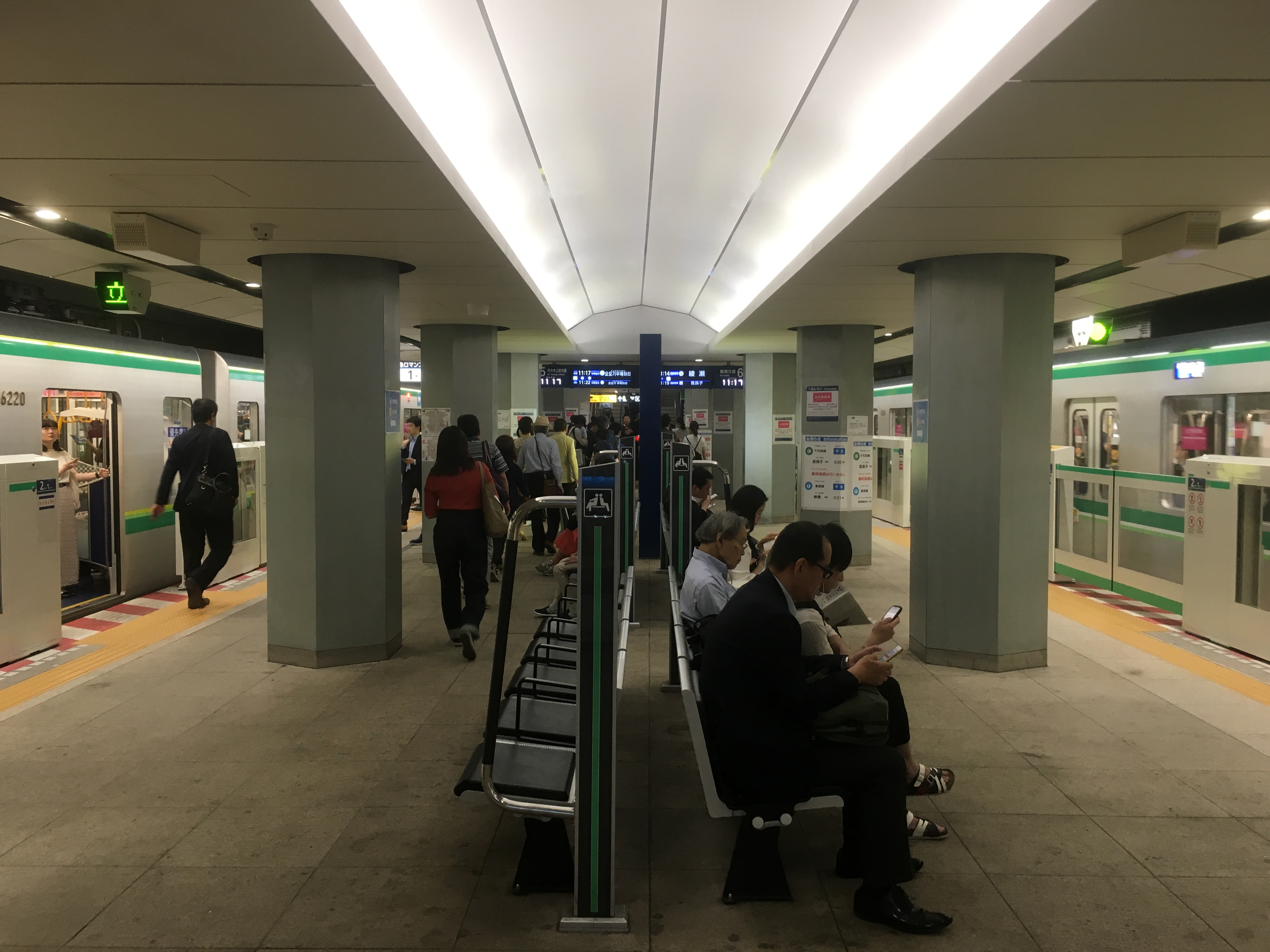 千代田線、大手町駅のホーム (Chiyoda Line, Otemachi Station platforms)